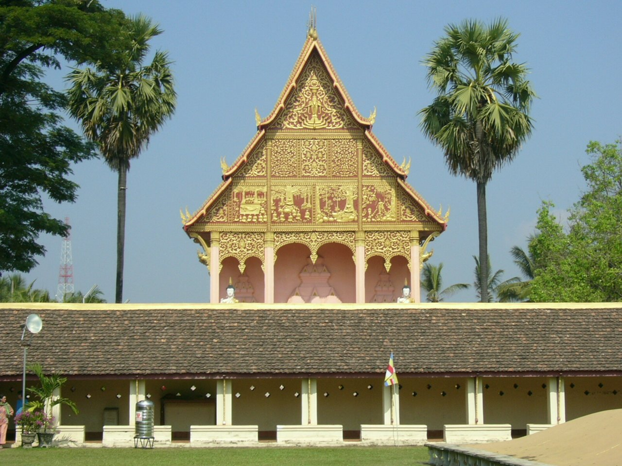 West pagoda near the Tat Luang in Vientiane, picture taken from inside the That Luang closter.